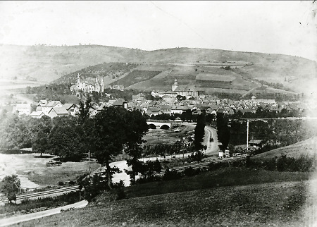 Herborn, then: Dutchy of Nassau, today: Hessen, Germany